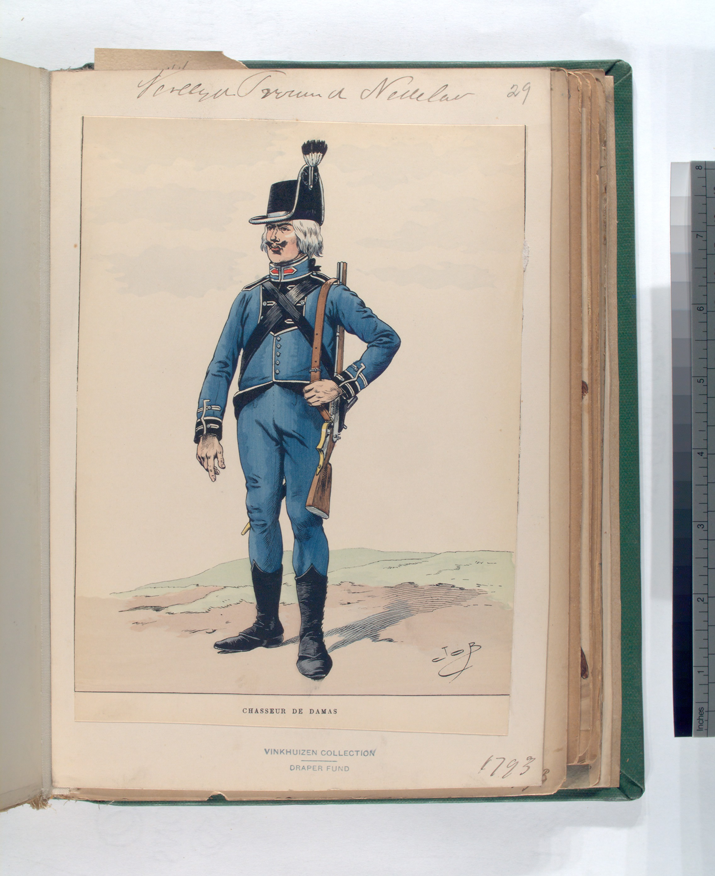 Draper Fund